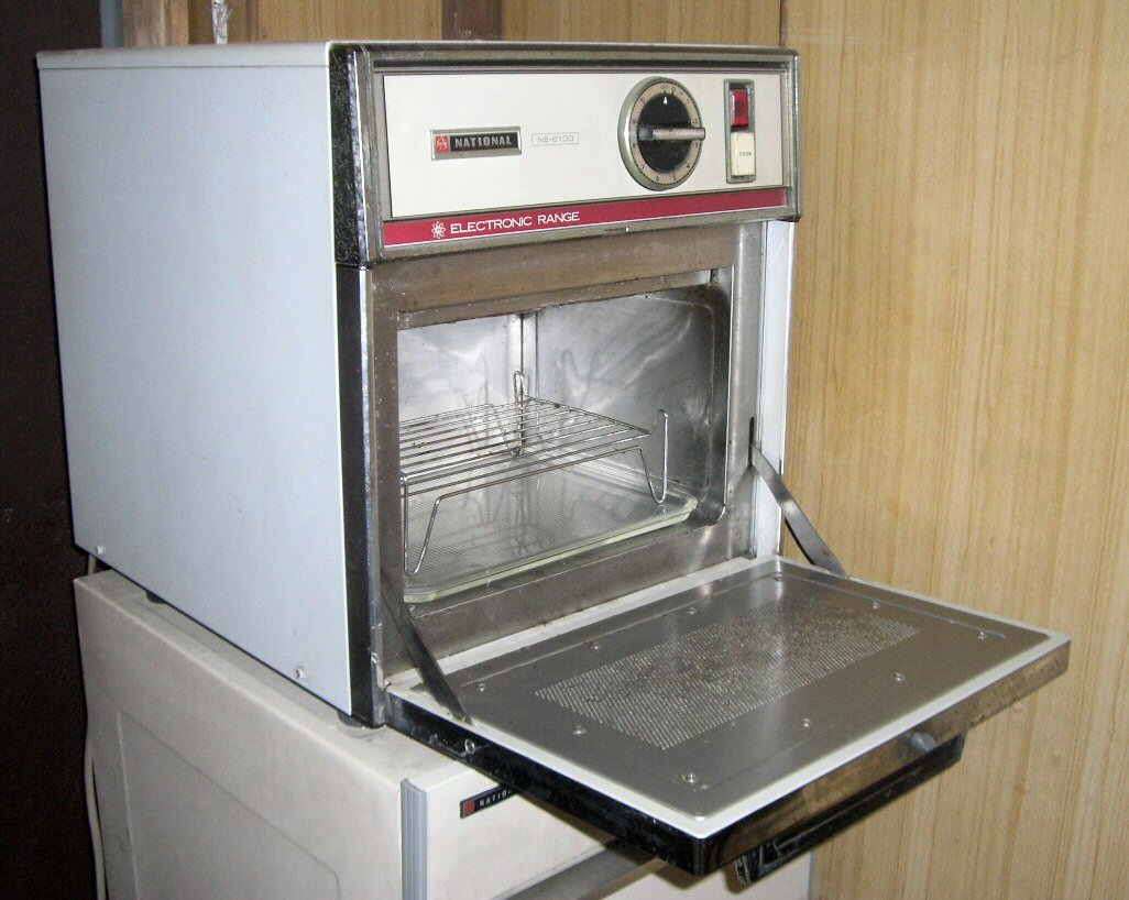 Microwave-oven NE-6100 made by Matsushita Electric Industrial Co., Ltd. in 1971.